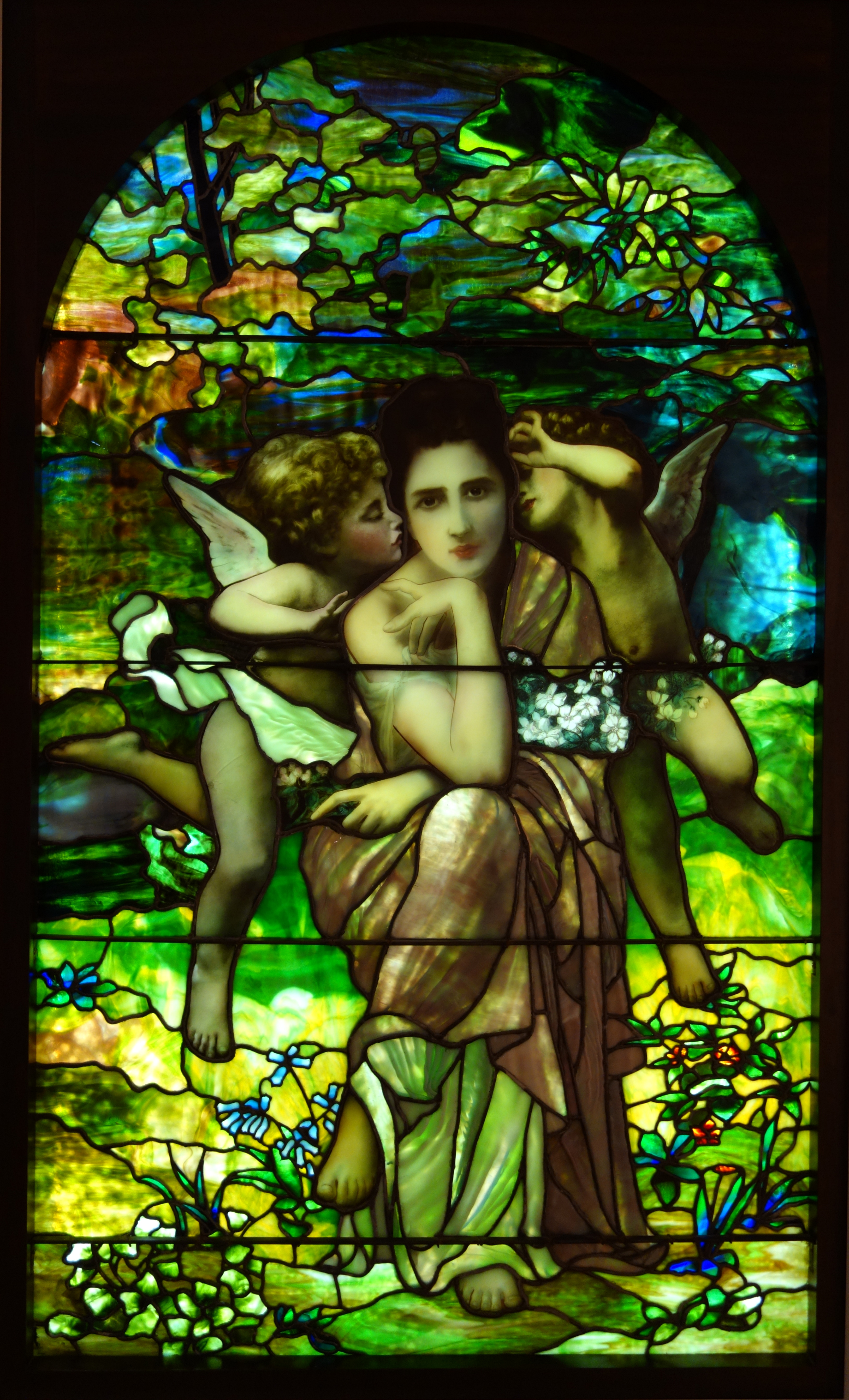 Exhibit in the New Britain Museum of American Art, New Britain, Connecticut, USA. This artwork is in the public domain because the artist died more than 70 years ago.